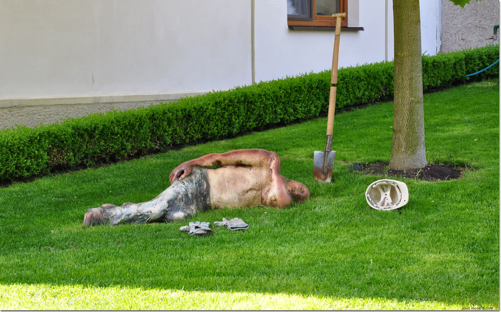 hard-worker having a rest